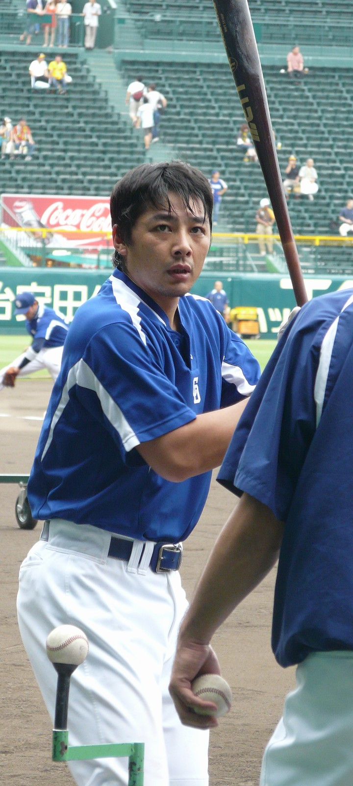 Masahiko Morino, infielder of the Chunichi Dragons, at Hanshin Koshien Stadium.